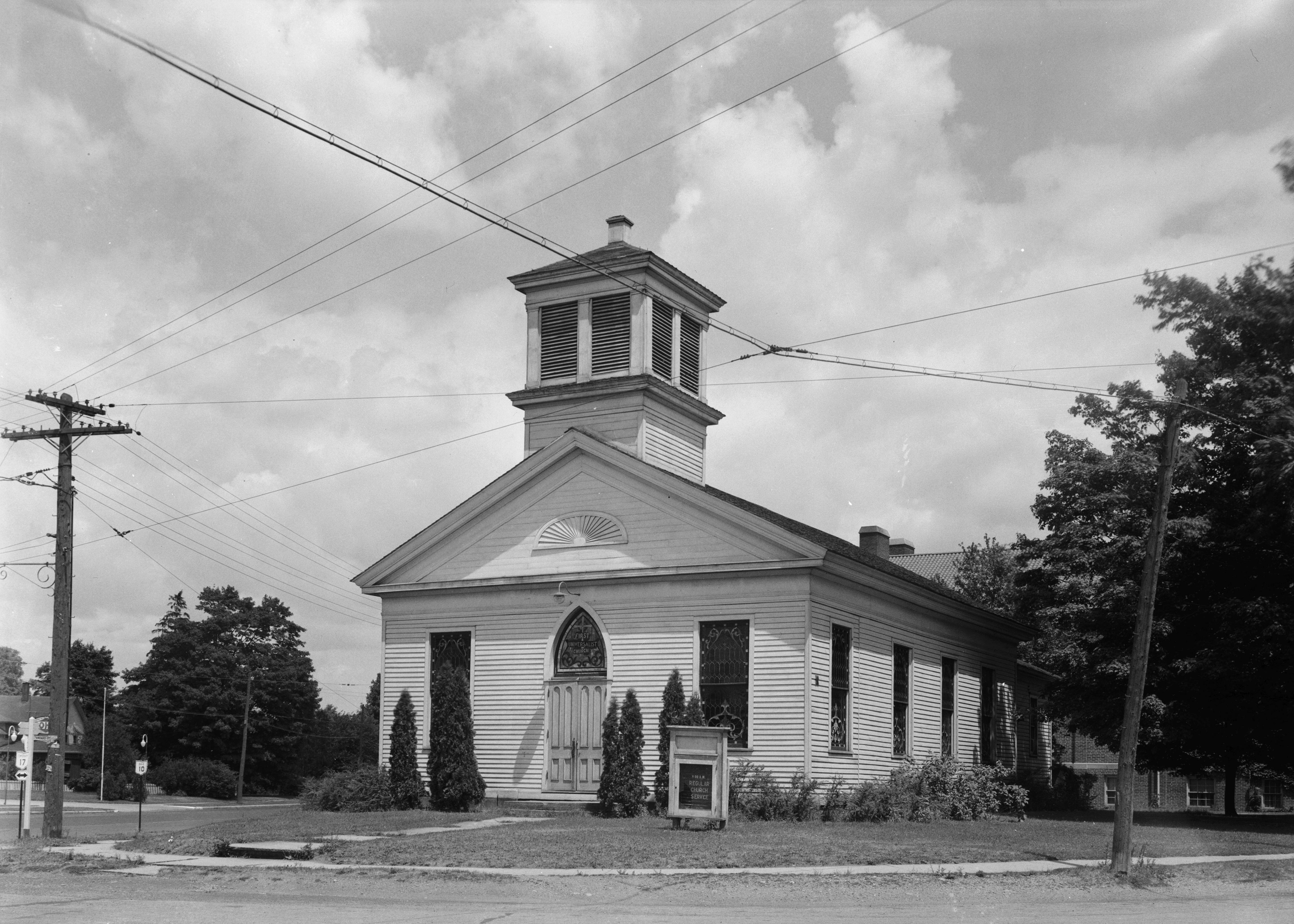 Front of the First Universalist Church of Olmsted, located at 5050 Porter Road in North Olmsted, Ohio, United States. Built in 1847, it is listed on the National Register of Historic Places.